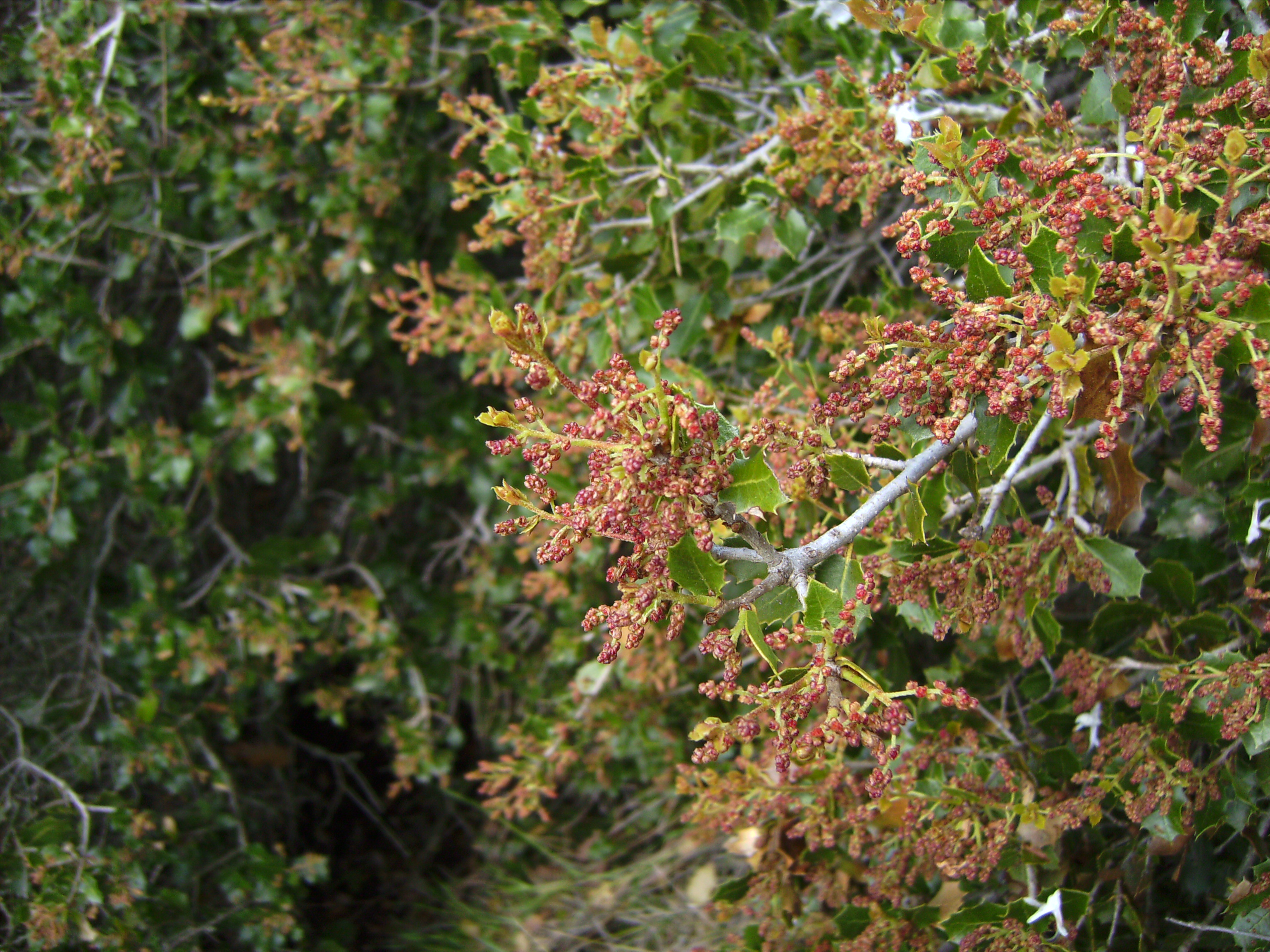 Quercus coccifera flowering, Castelltallat, Catalonia